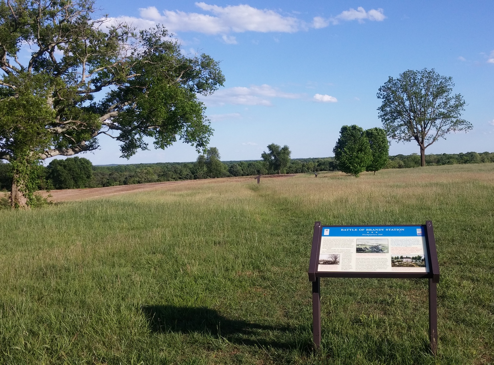 Fleetwood Hill, Stiart's headquarters site